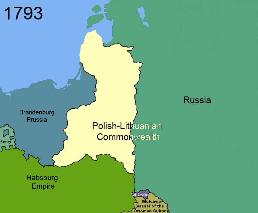 Poland 1793